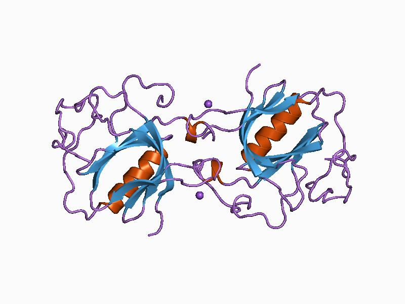 Cartoon representation of the molecular structure of protein registered with 1btk code.